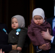 Prince Vincent and Princess Josephine of Denmark on the 40th anniversary of their grandmother's accession